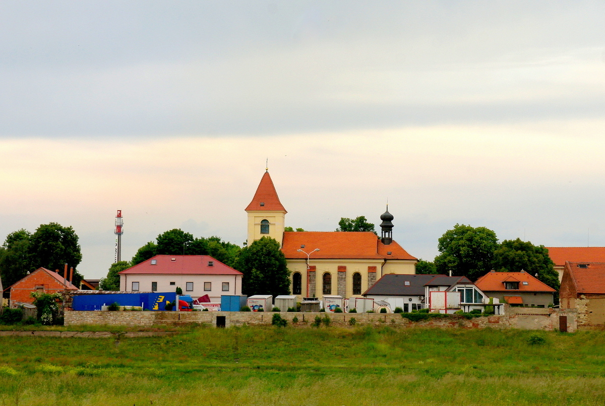 Church of St. Giles, 1. máje, Lužec nad Vltavou Mělník district